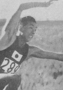 an athlete from Japan,南部忠平（Chuhei Nanbu）